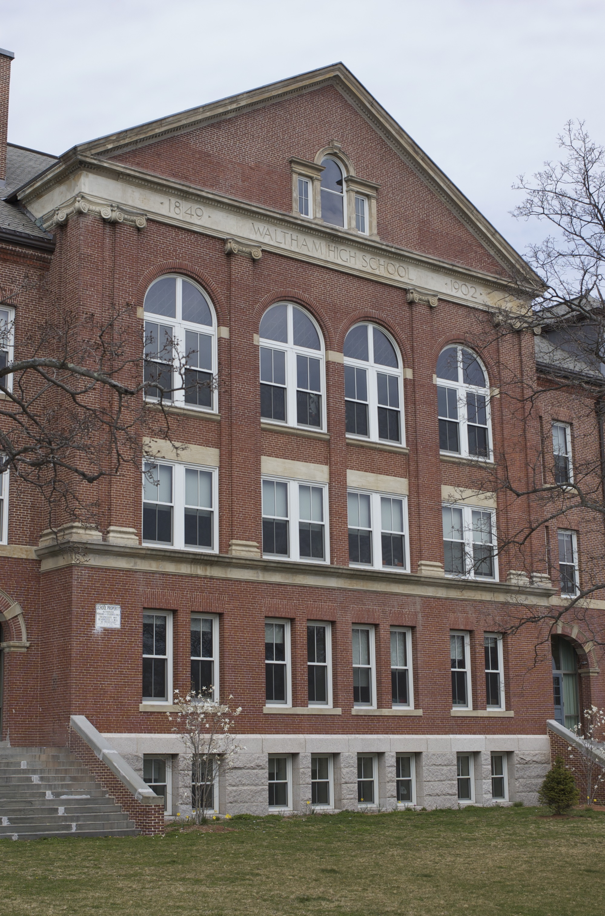 Facade of the Waltham High School in Waltham, Massachusetts.